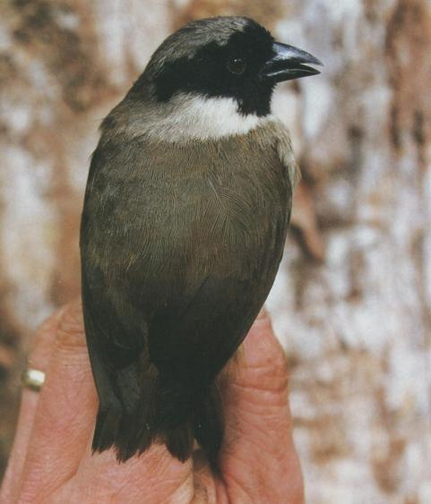 Photos credit: Paul E. Baker/USFWS (U.S. Fish and Wildlife Service)